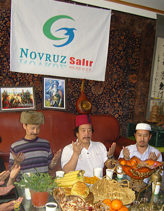 Salars celebrate Novruz in China.